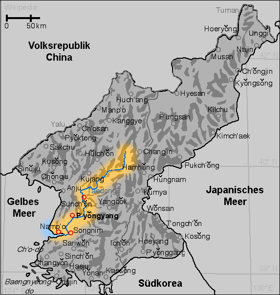 This is a modification of highlighting the Taedong river. Names are written in German.